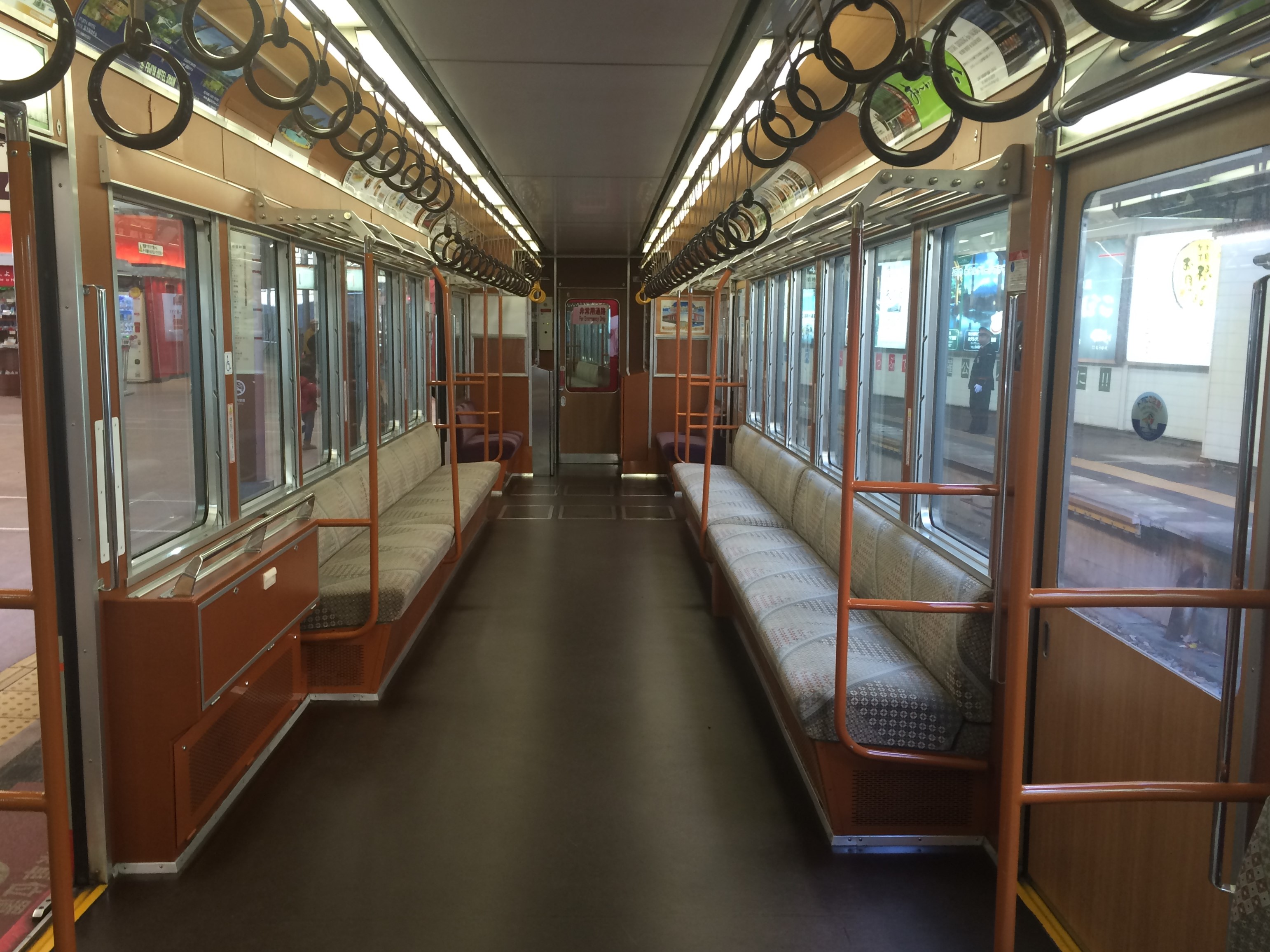 The interior of a Hakone Tozan 2000 series EMU at Hakone-Yumoto Station